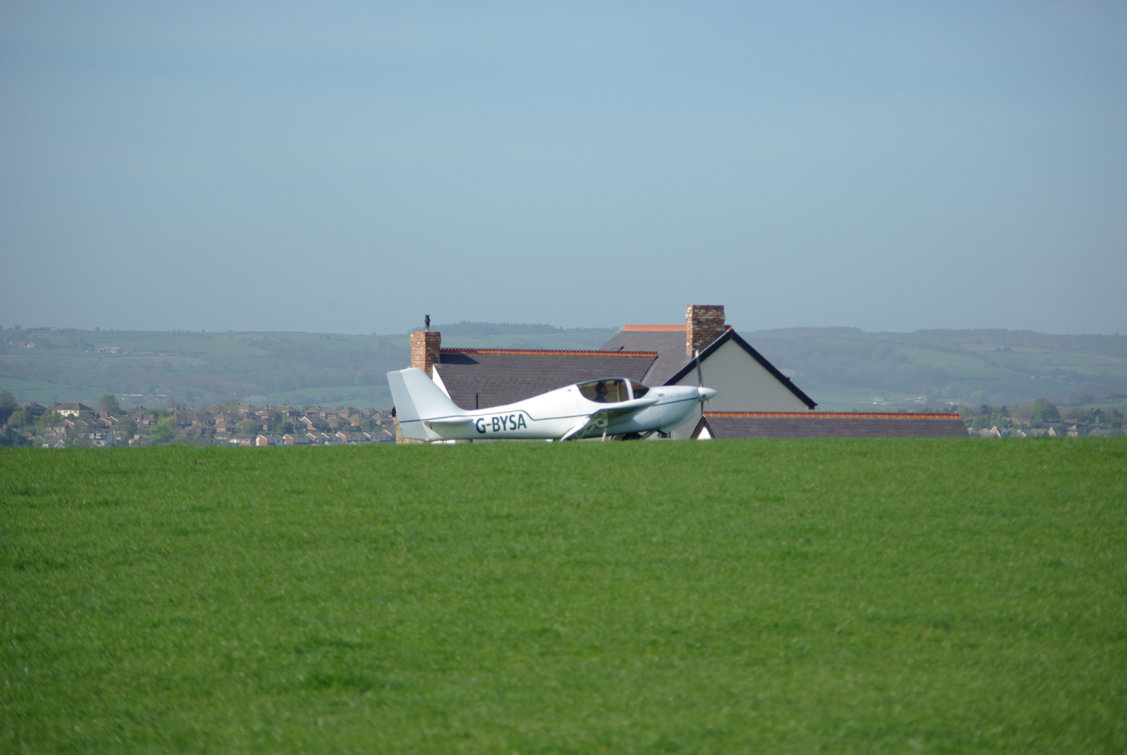 Europa G-BYSA turns onto runway 11 at Coal Aston airfield in front of farmhouse/ops centre.